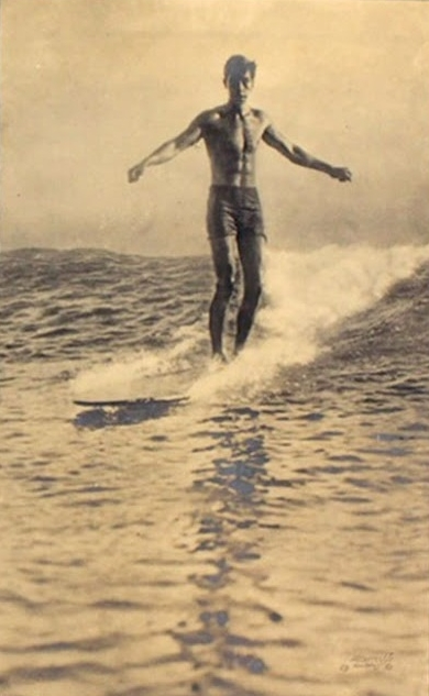 Duke Paoa Kahanamoku, Hawaii's Champion Swimmer of the World. This photograph was included in Alfred Richard Gurrey, Jr's The Surf Riders of Hawaii. Honolulu, 1911-1914. And later reprinted in The Mid-Pacific Magazine. Volume 4, Number 5, Alexander Hume Ford, Honolulu, December,1912.